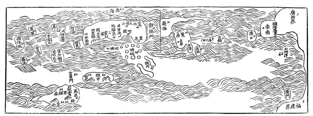 1791 Java map annotated by Walter Henry Medhurst( 1796 - 1857)《海岛逸志》爪哇地图